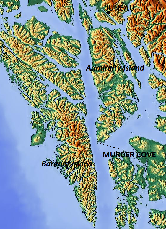 Relief map showing Murder Cove, Alaska